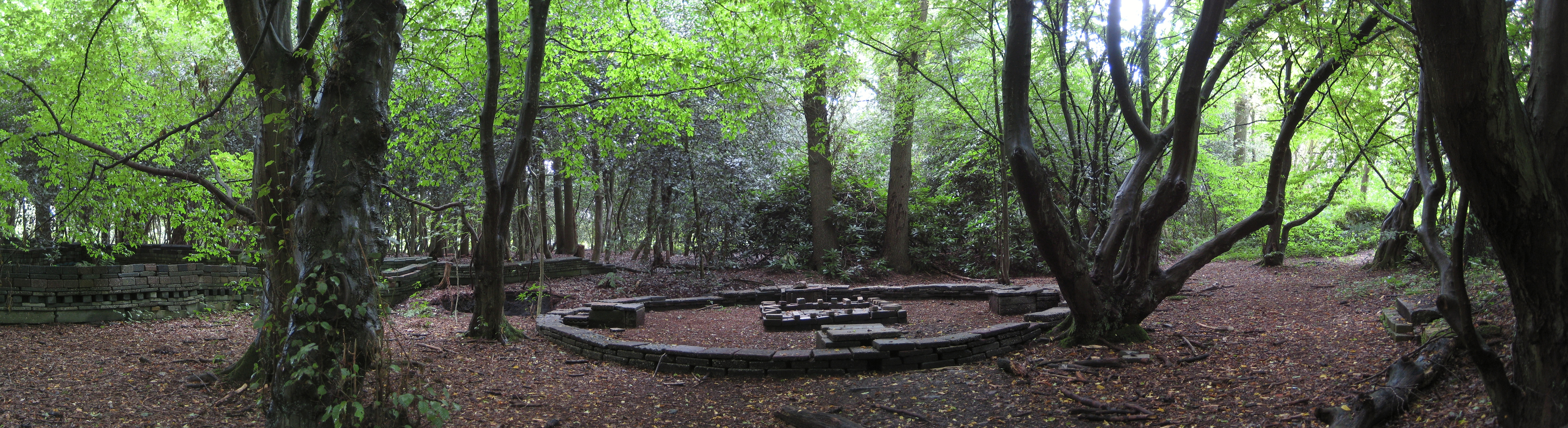 Part of the Ecokathedraal, a land art project near Mildam, a village in the Dutch municipality of Heerenveen (Fryslân), initiated in the seventies by Louis le Roy (1924-2012).